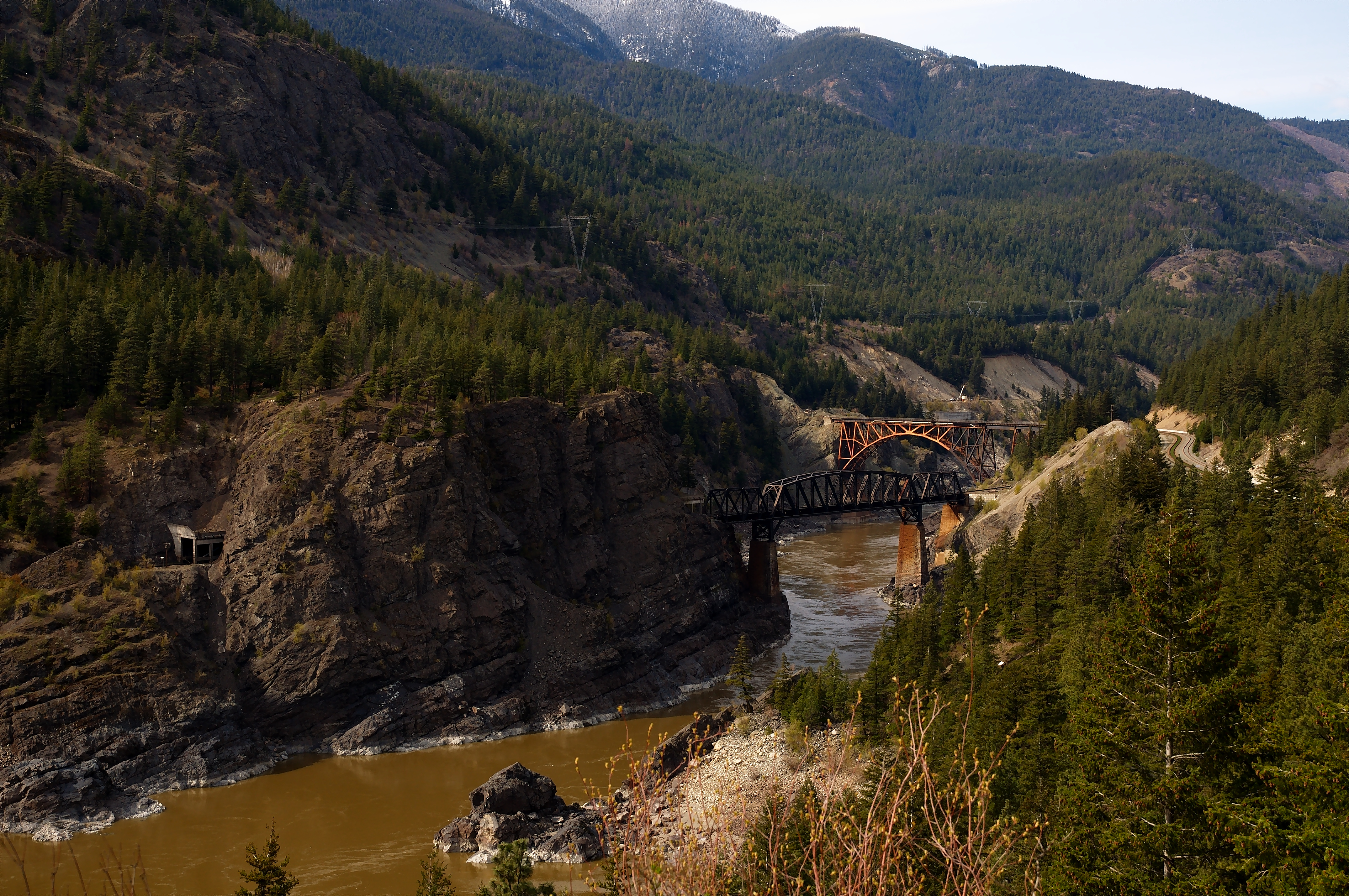 The Siska railway bridges across the Fraser River near Lytton British Columbia.